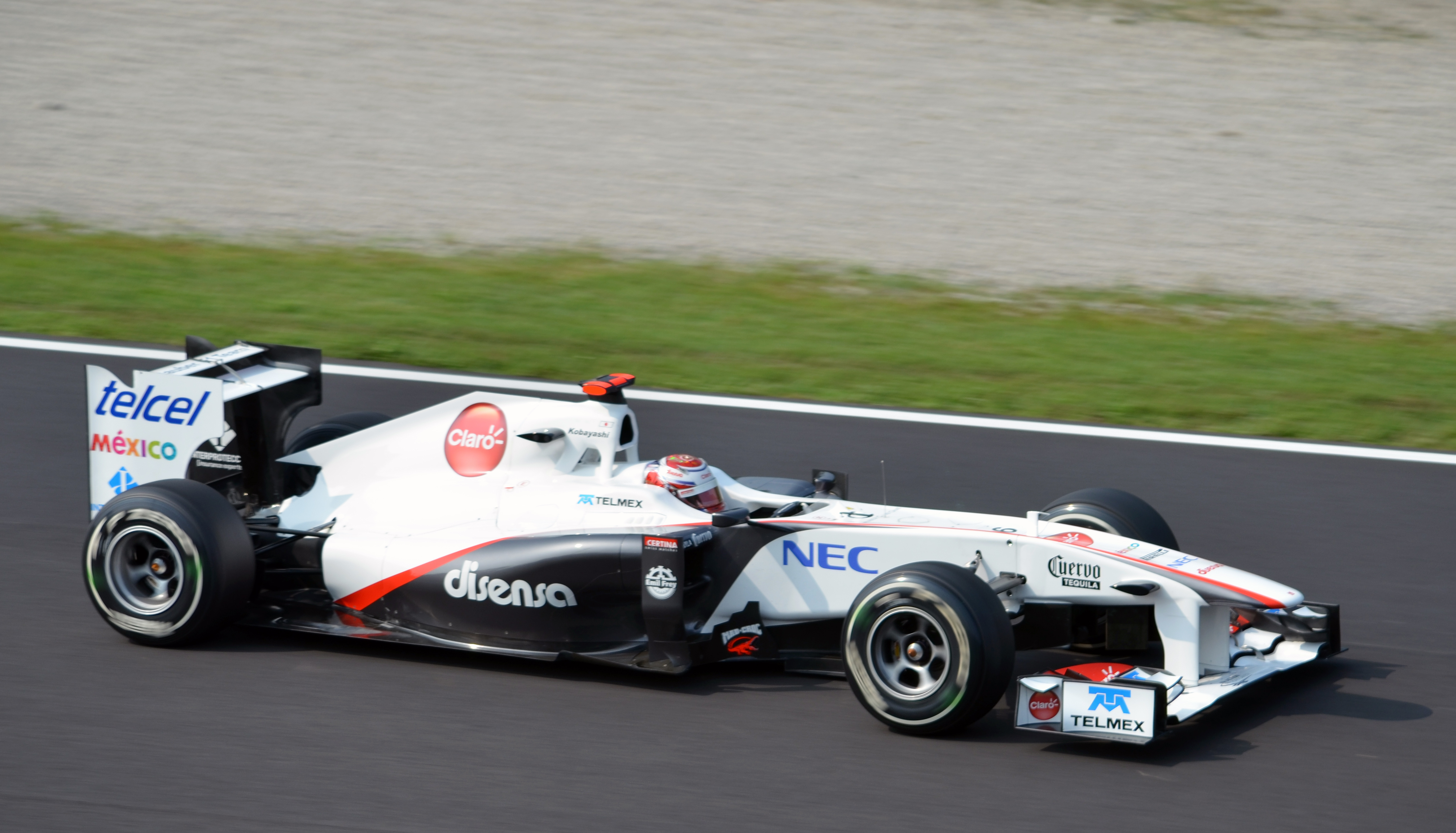 Kamui Kobayashi in the Sauber - Ferrari C30 exits the Parabolica corner at Monza during third practice for the 2011 Italian Grand Prix.